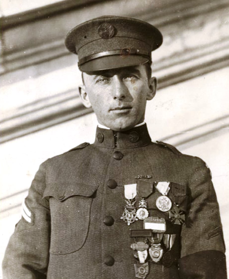 WWI Medal of Honor recipient John L. Barkley. He wears the Medal of Honor, the French Médaille militaire, the Montenegrin Medal for Military Bravery and the French Croix de guerre with palm in the top row. The medal to the very right in the second row (with striped ribbon) is the Missouri World War I Commemorative Medal.